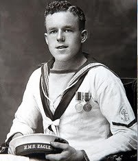 Claude Choules when serving on HMS Eagle